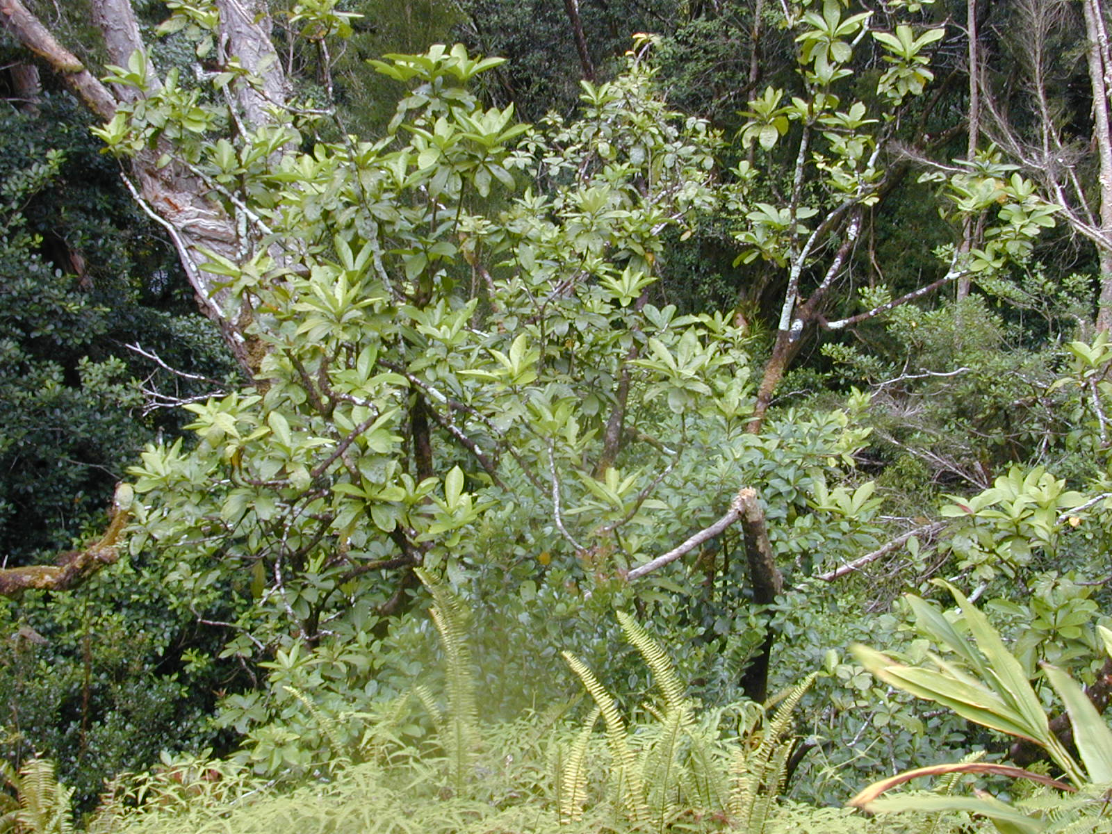 Pisonia umbellifera (habit). Location: Maui, Wahinepee